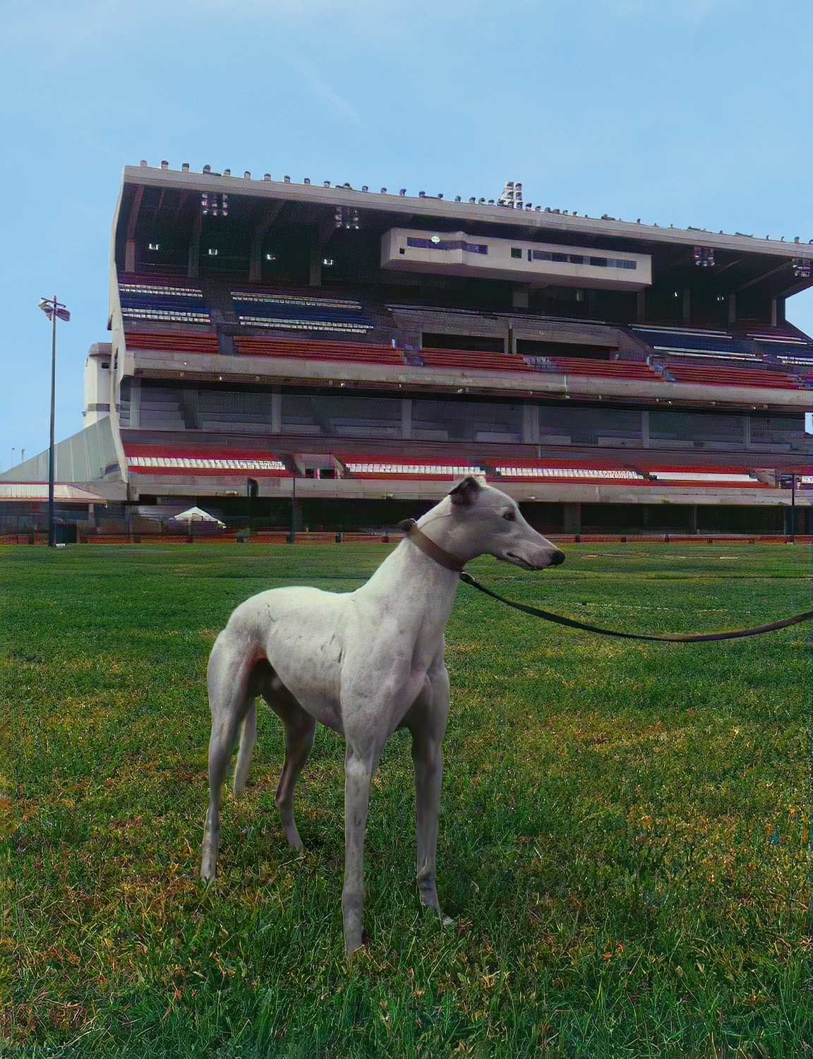 Canódromo de la isla de Margarita.